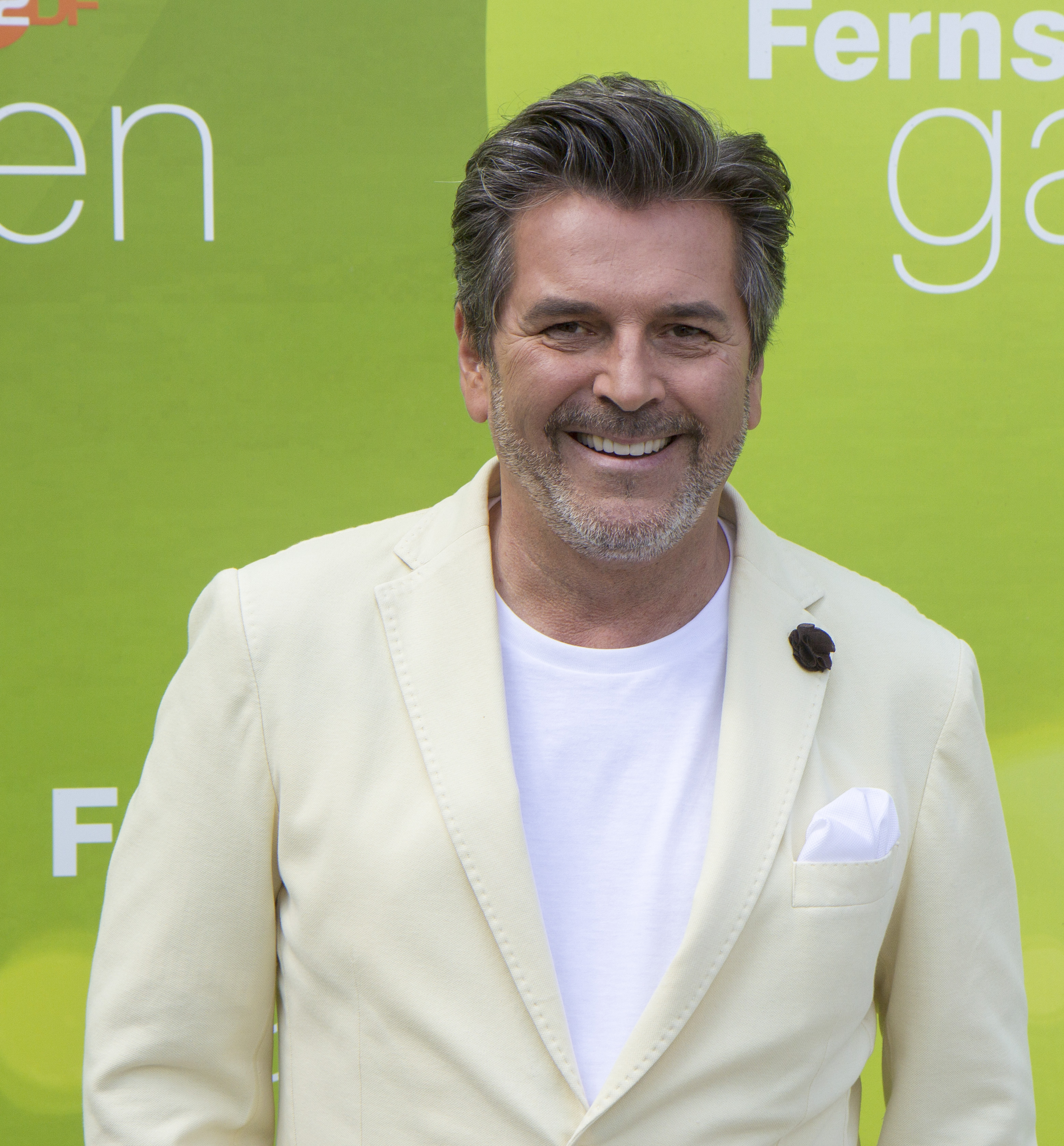 Thomas Anders: ZDF Fernsehgarten in Mainz.